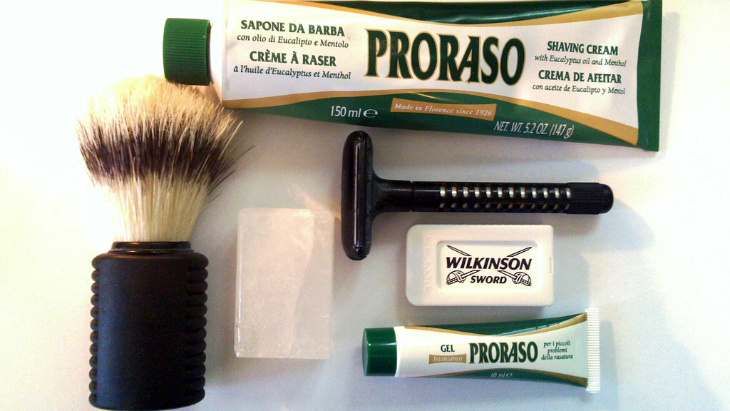 From left: Omega boar bristle brush, pictured previously, alum block, Wilkinson Sword Classic safety razor, pack of Wilkinson Sword blades, Proraso gel for nicks and cuts and, at the top, Proraso shaving cream.